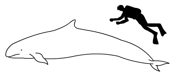 Size comparison of an average human against the false killer whale